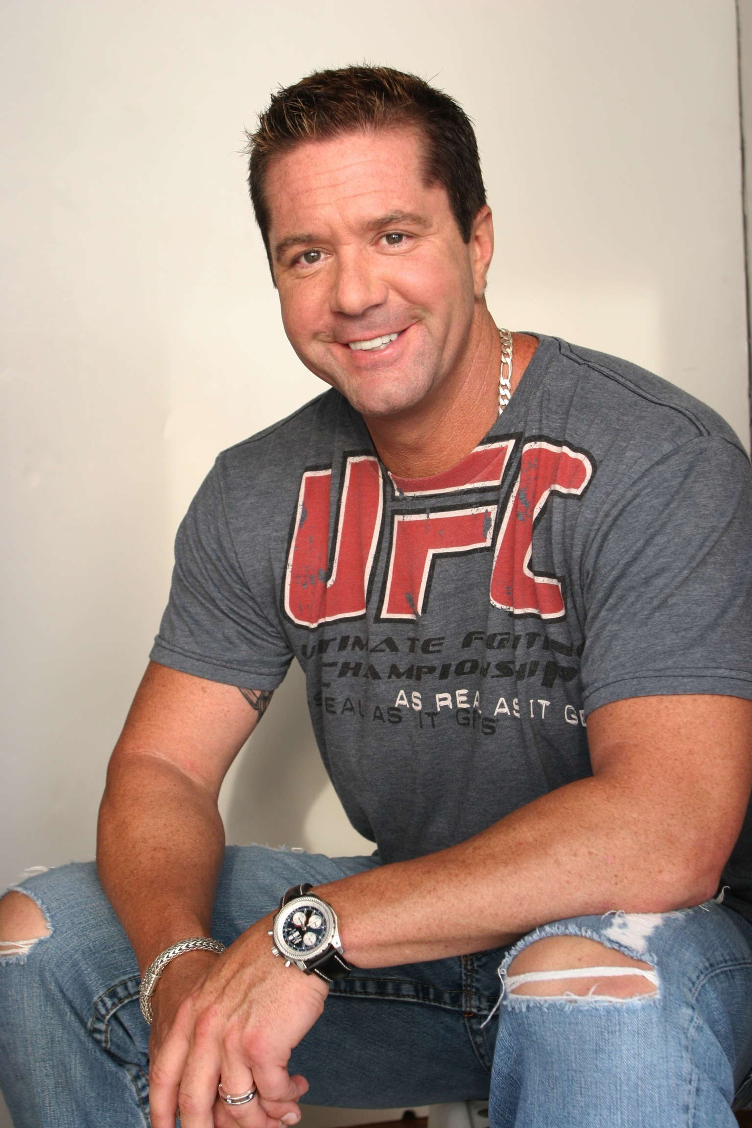 It's ALL Over!